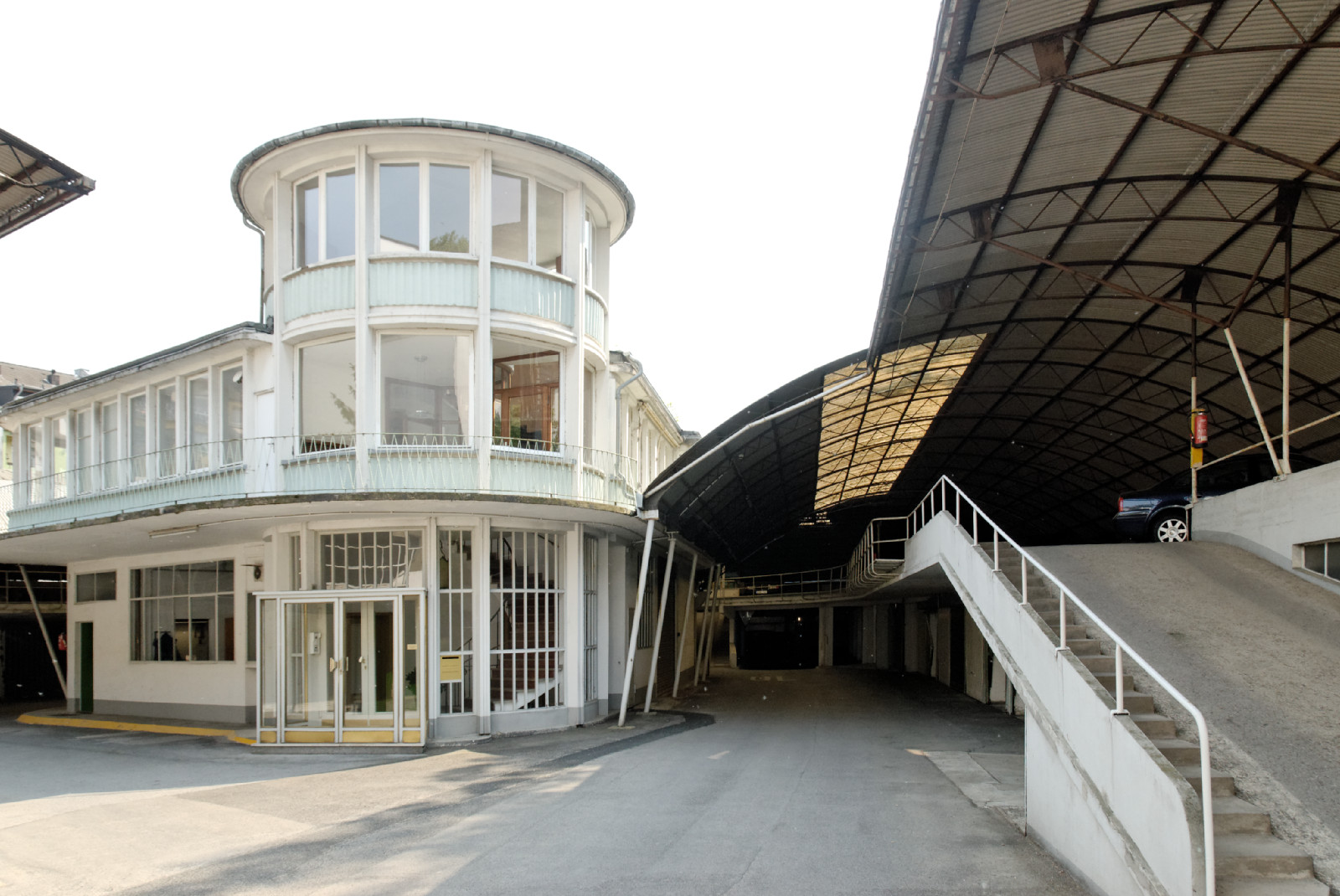 Garagenanlage, Erftstraße 9 to 11 in Düsseldorf-Unterbilk, Germany This is a photograph of an architectural monument.